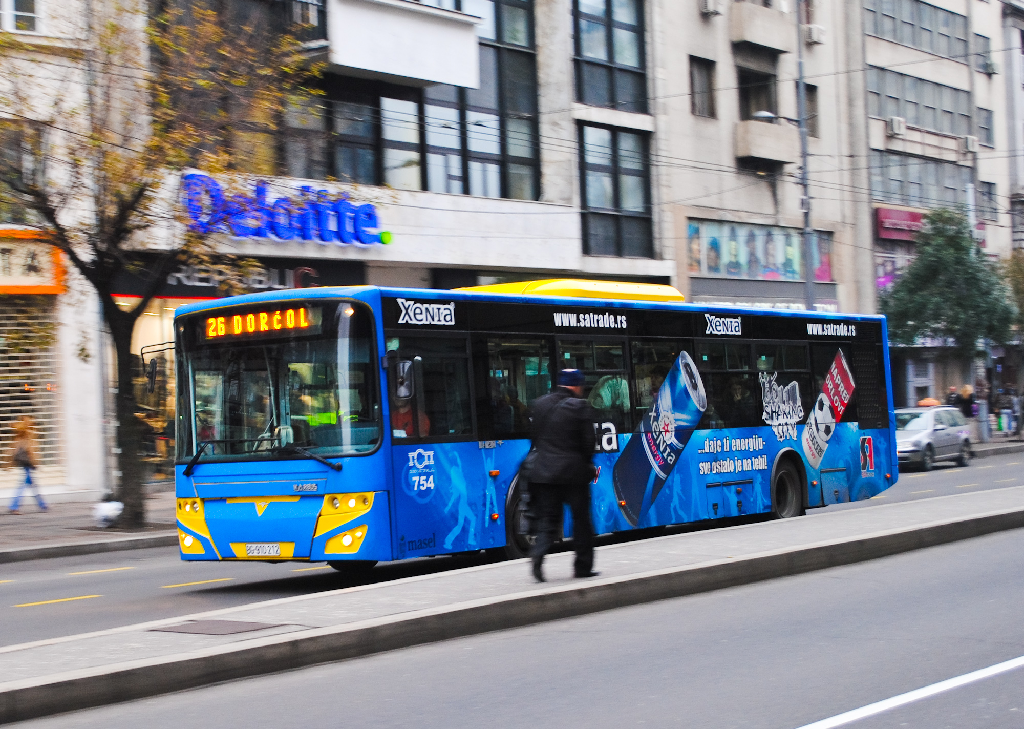 Ikarbus lowfloor bus IK-112N on 26 GSP Beograd line.